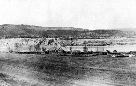 Fort Alexandria – Site of North West Company post, 1821-60s